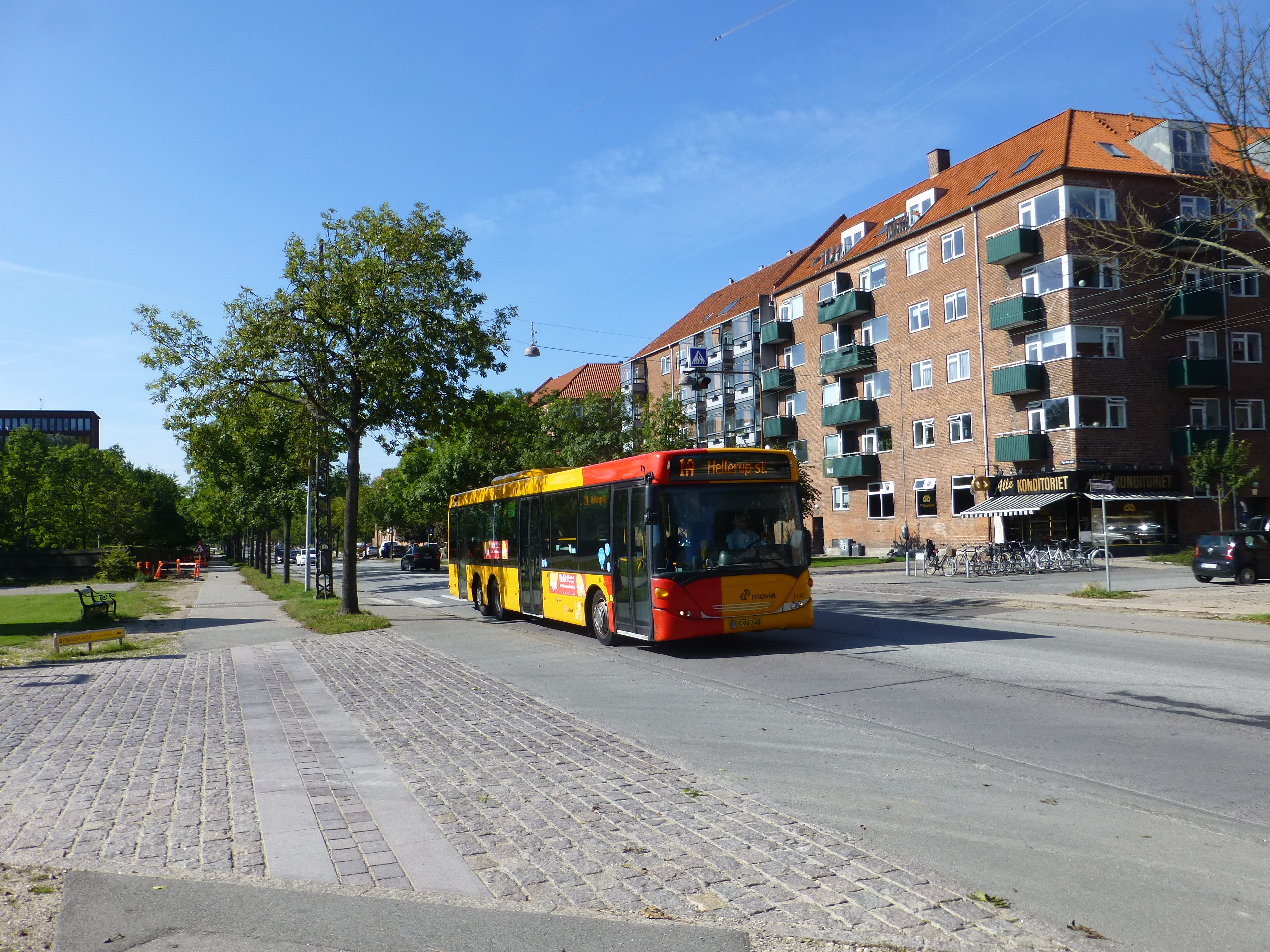 Movia bus line 1A on Vigerslev Alle in Valby in Copenhagen.